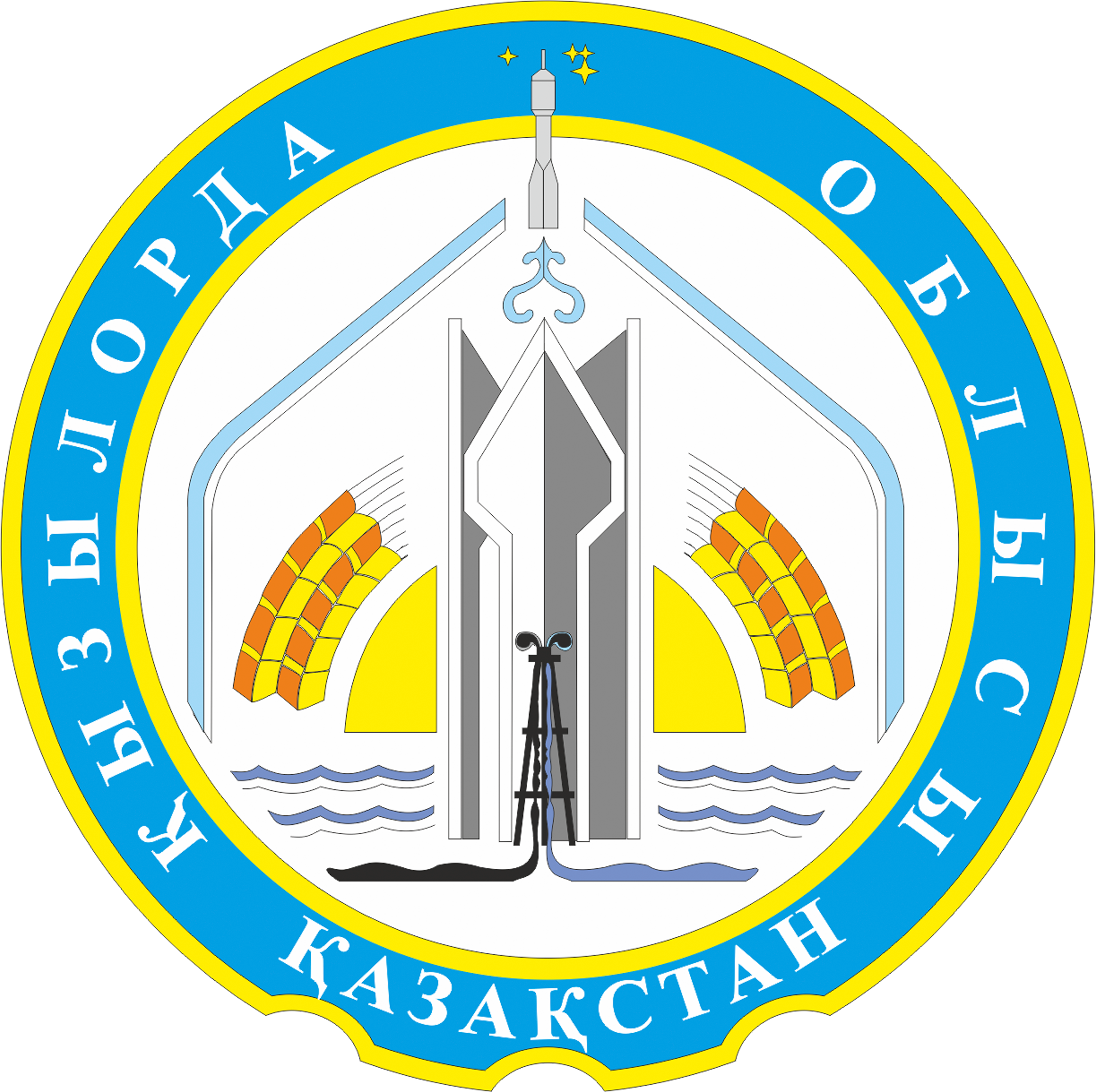 Coat of Arms of Kyzylorda province